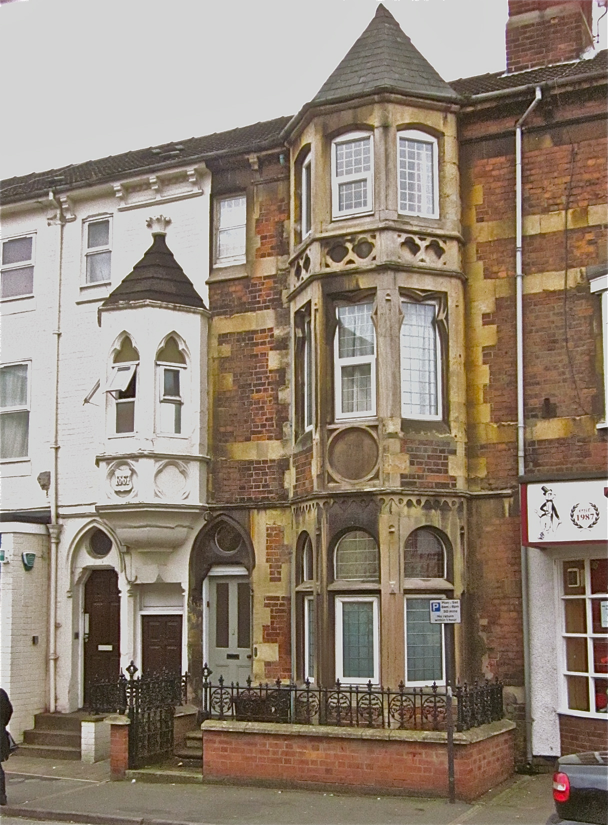 116 &117 Monks Road Lincoln